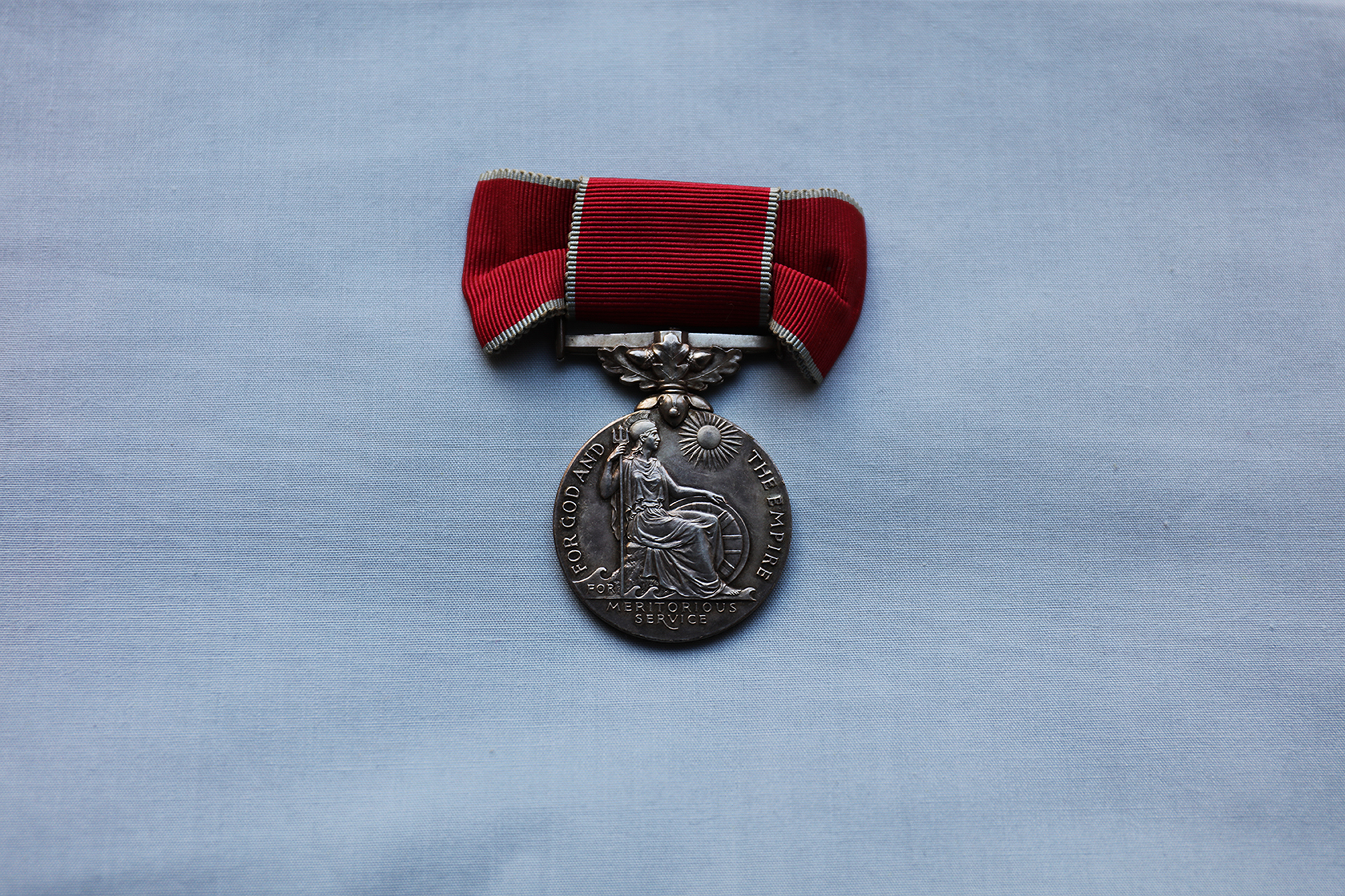 Front of Attridge's medal, awarded in 1946 for services to the war effort